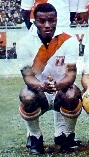 Peru national football team moments prior to a practice match against the Mexico national football team in 1968. Friendly match ahead of their participation in the 1970 FIFA World Cup, featuring players from the team that qualified them to the aforementioned tournament.